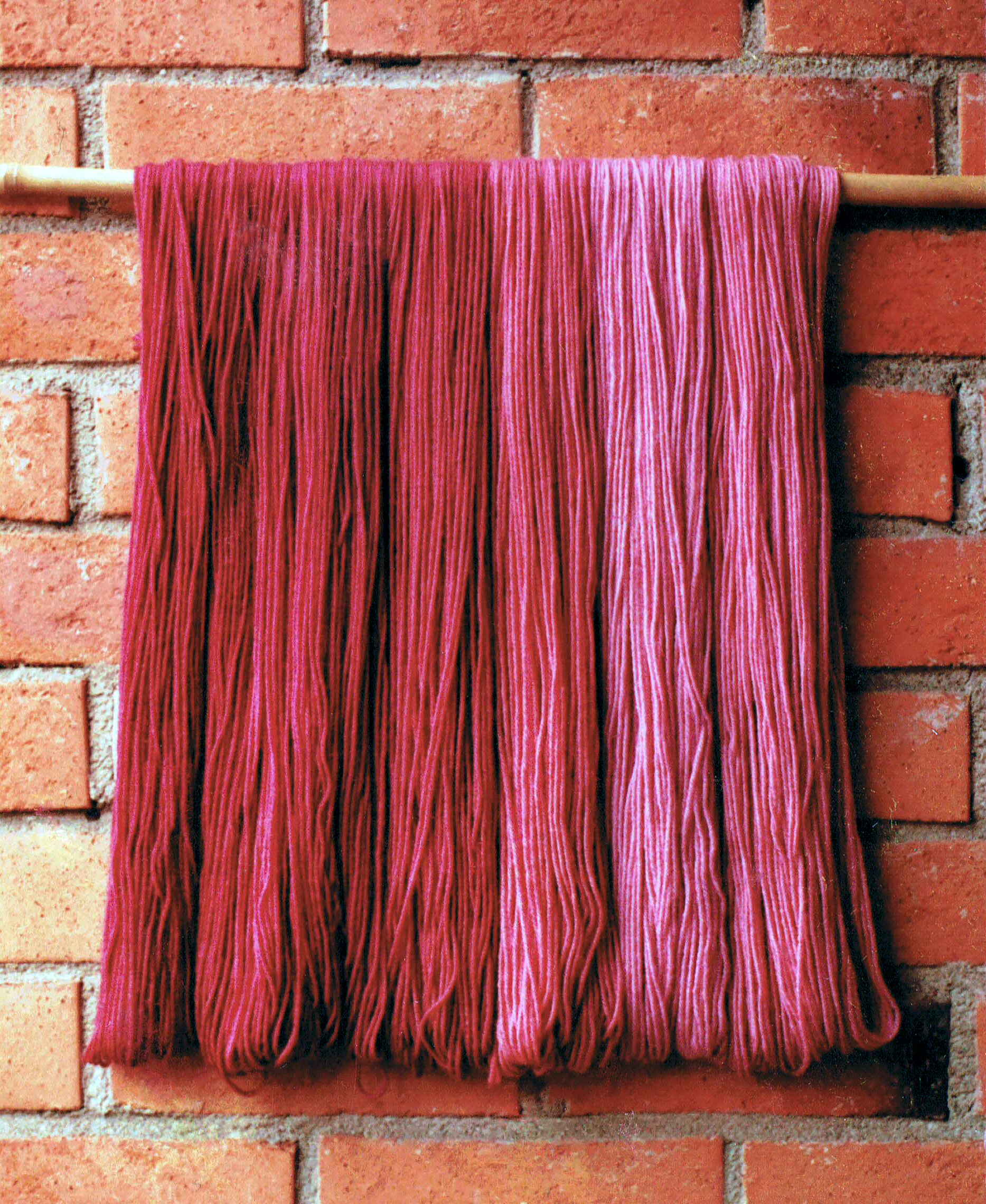 White wool yarn plant dyed in a traditional way with orcein from lichens. The different shades were obtained by dipping the skeins additional times in the dye bath. Photo taken in Stockholm, Sweden. Scanned from a paper copy and restored in Photoshop.